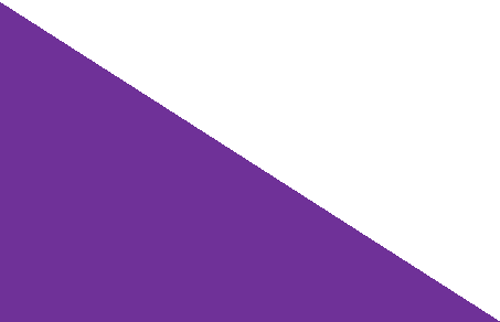 Flag of Chhuikhadan State